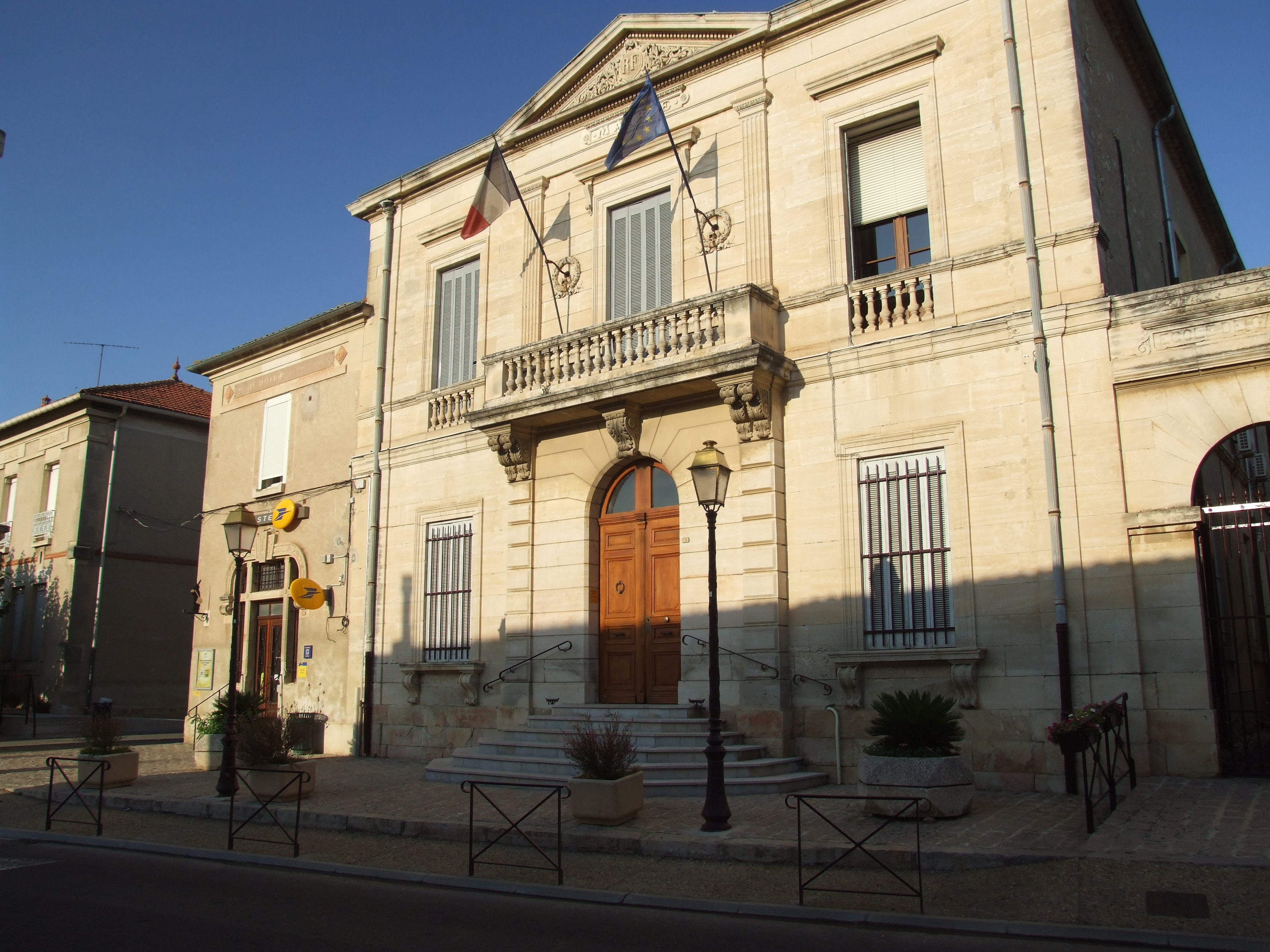 The commune of Codognan, ( post code is F30920 and INSEE 30038 is situated east of the River Rhôny, south of Vergèze in the departement of Gard. in the region Languedoc-Roussillon in southern France.